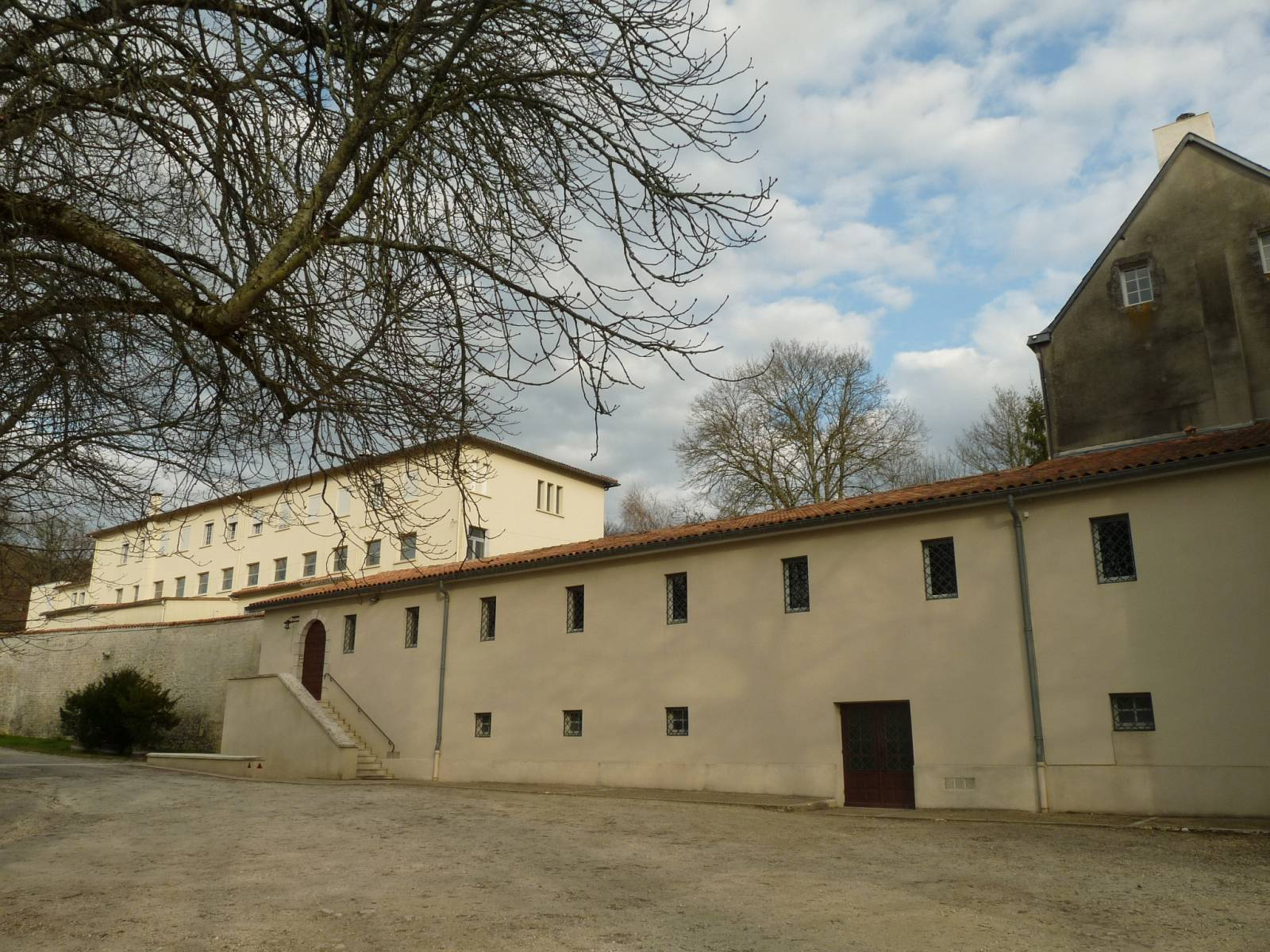 abbey of Maumont, Juignac, Charente, SW France